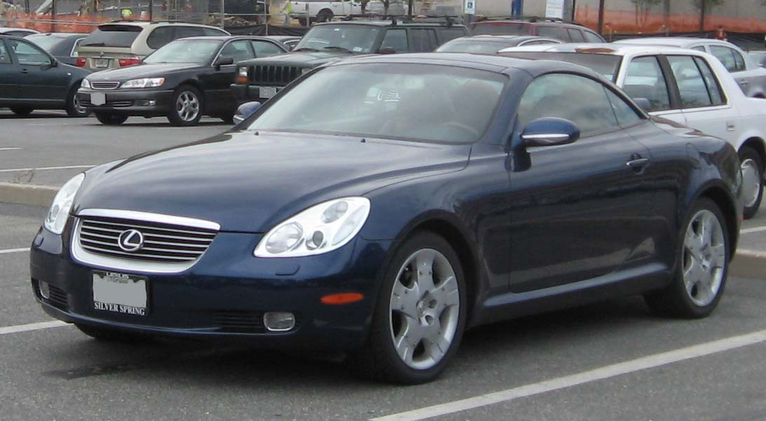 Lexus SC430 photographed in College Park, Maryland, USA.